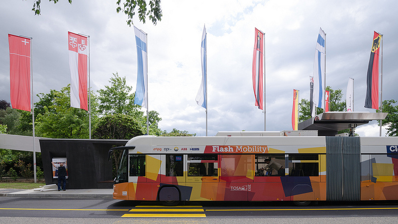 TOSA Bus at PALEXPO Flash bus stops